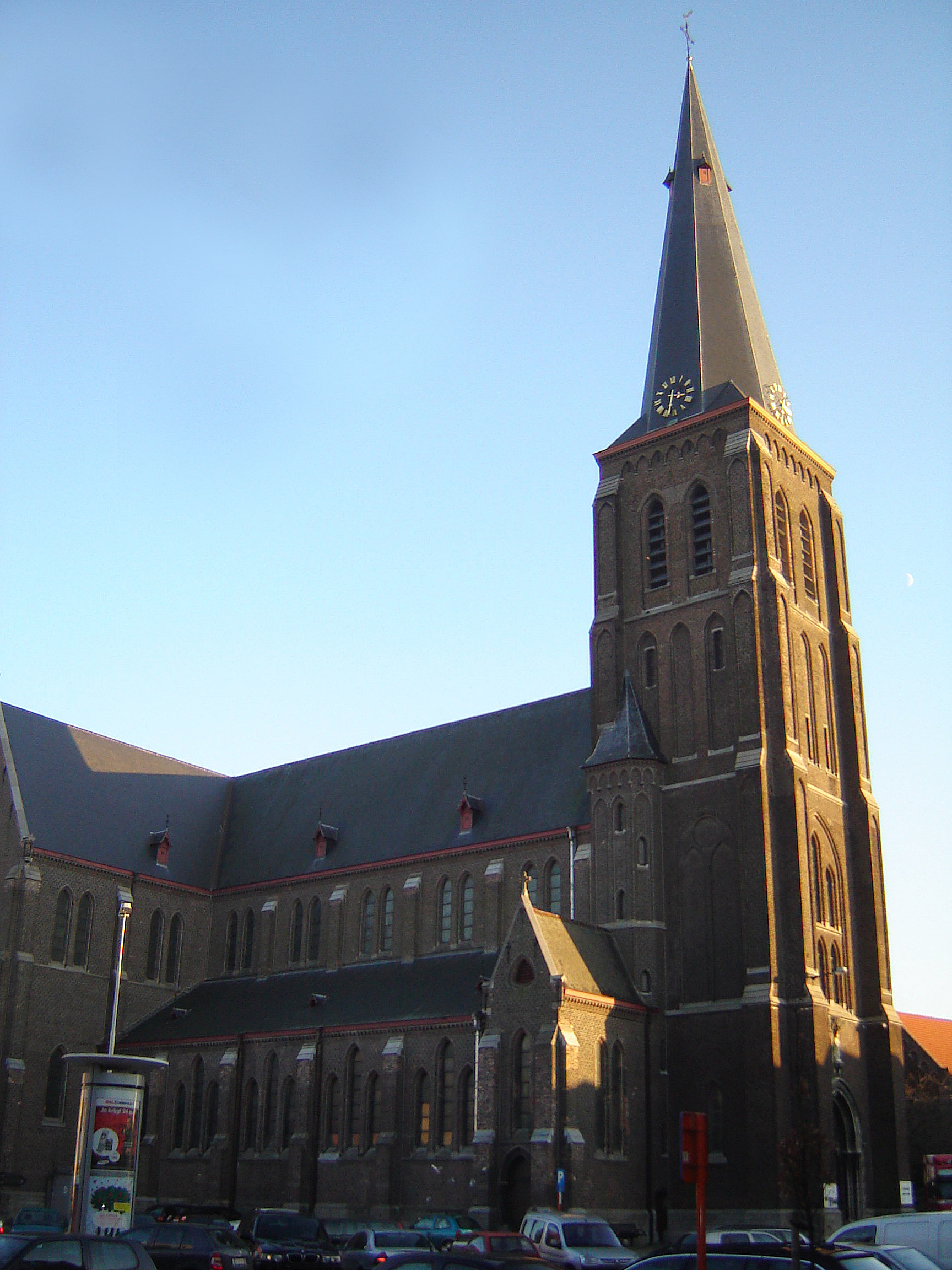 Church of the sacred hart in Sint-Amandsberg. Sint-Amandsberg, Gent, East Flanders, Belgium.